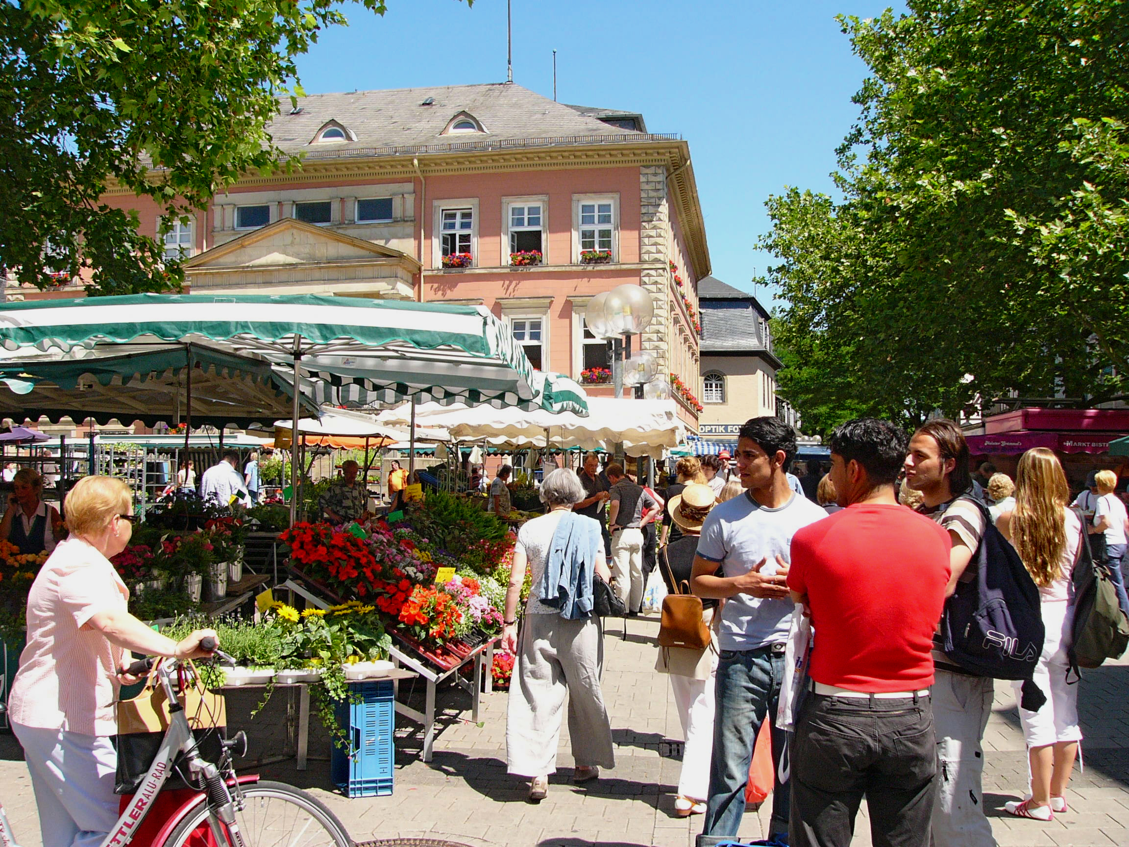 Market and town hall in Detmold, Germany